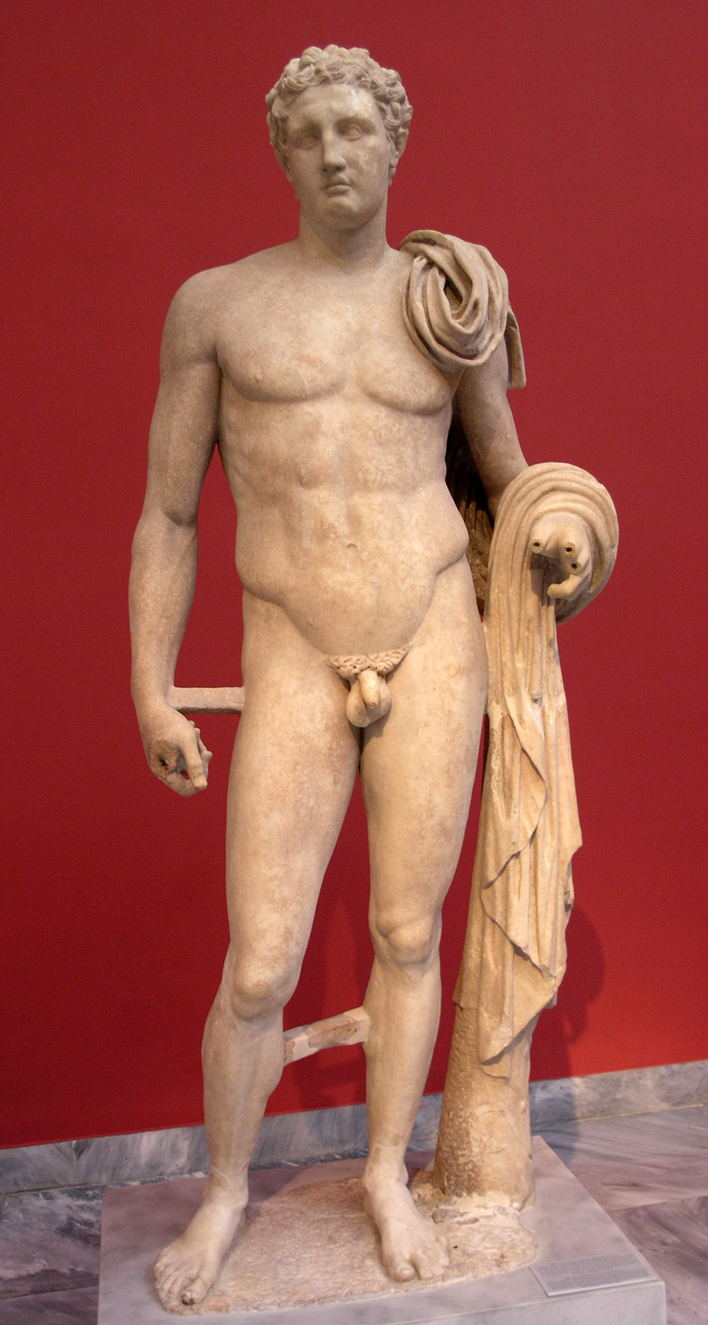 The Hermes from Atalante, in the National Archaeological Museum in Athens. This 2nd century BC statue represents a deceased youth in heroic nudity, after an original dating from the 4th century AD and inspired by the lysippean style.